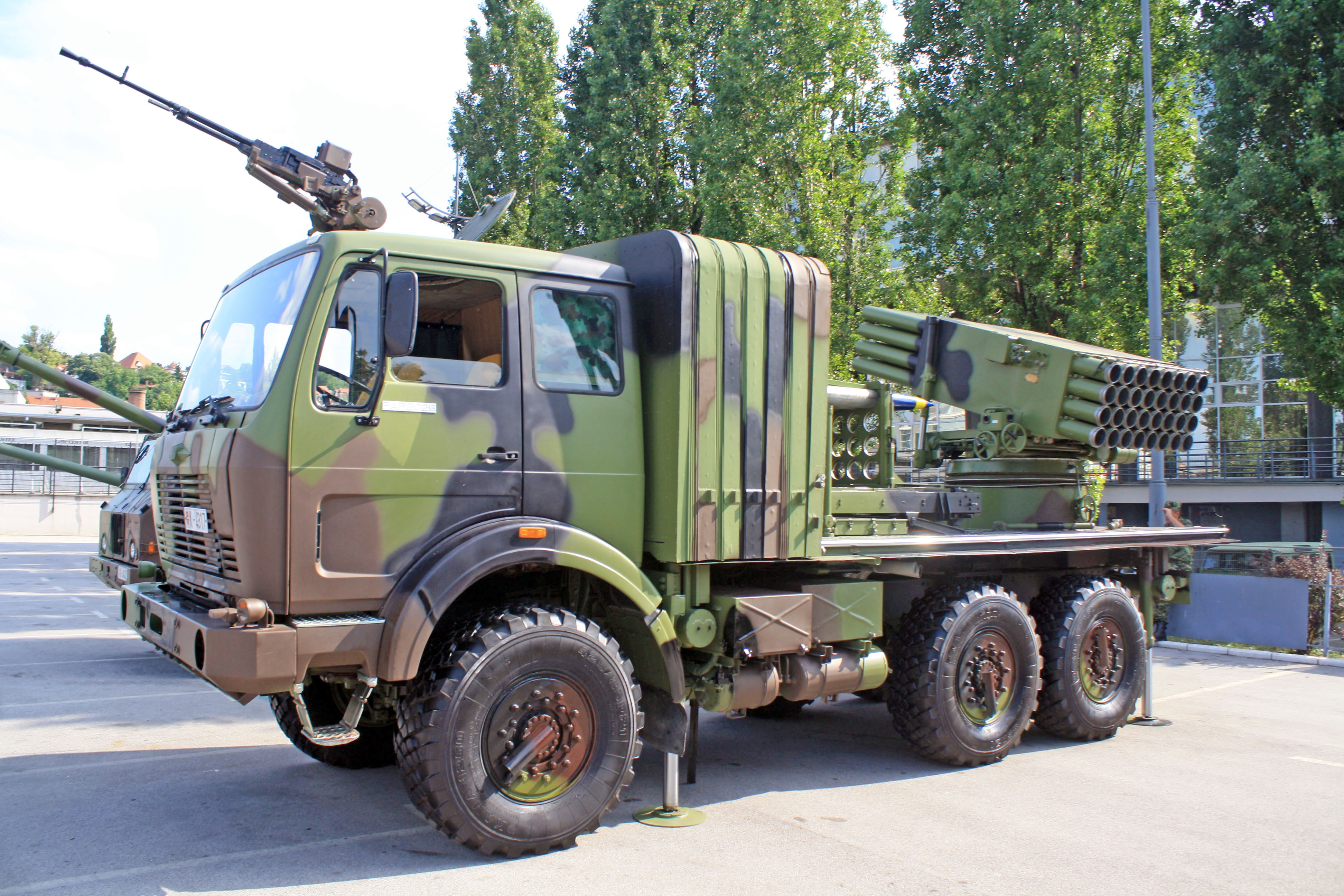 M77 Oganj 128mm multiple rocket launcher of Serbian Army on display at "Partner 2013" military fair.